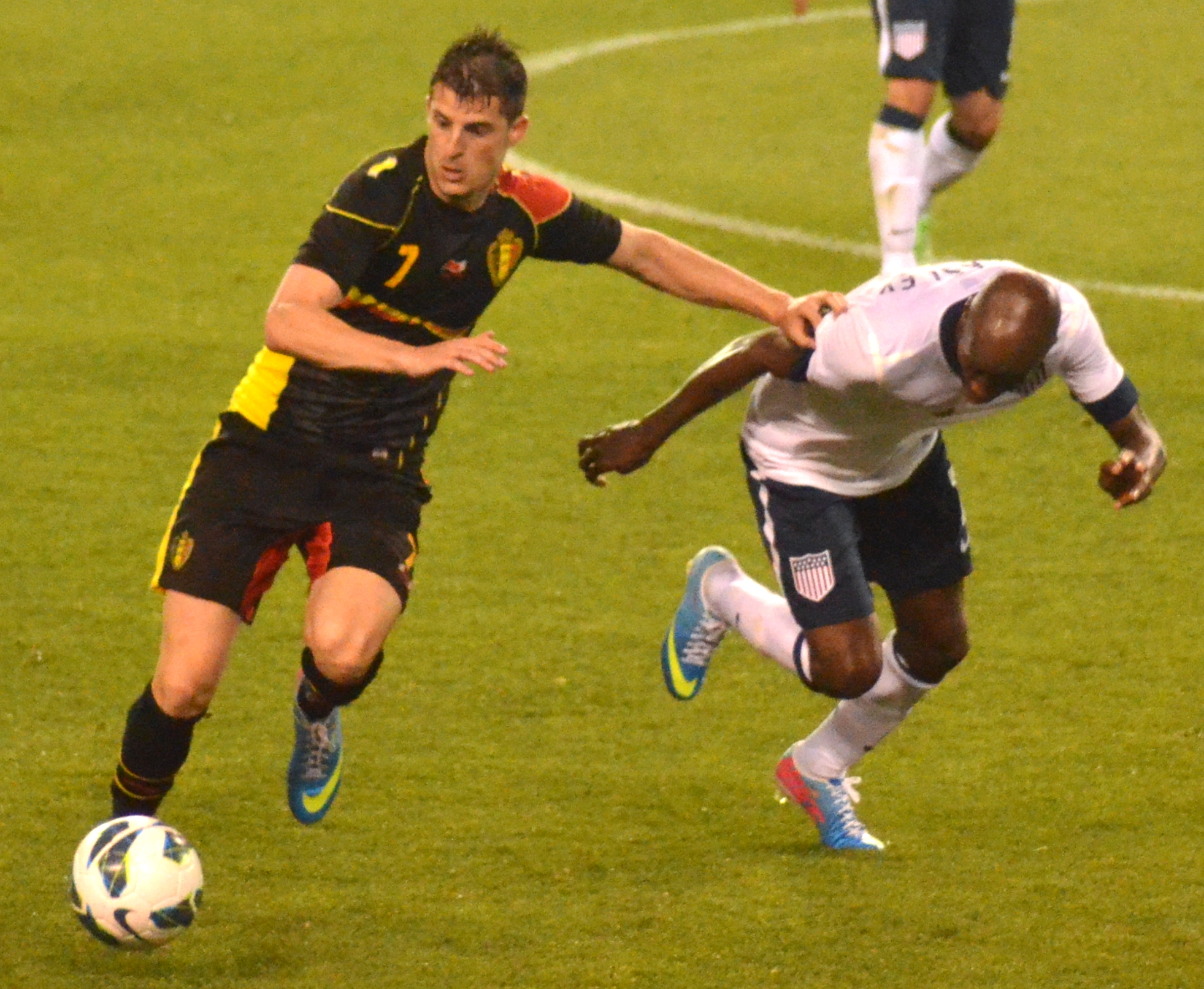 FirstEnergy Stadium Home of the Cleveland Browns